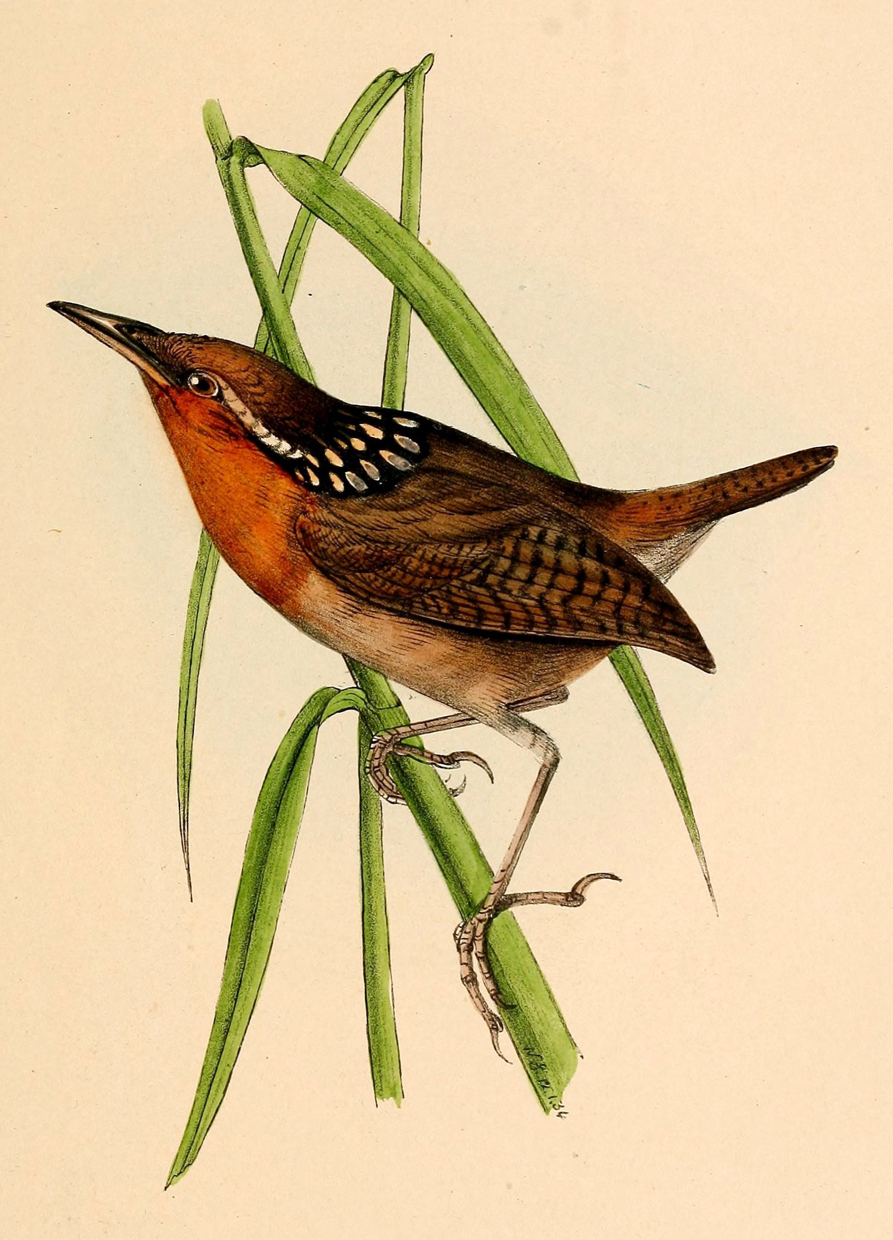 Thryothorus carinatus = Cyphorhinus arada (Musician Wren)